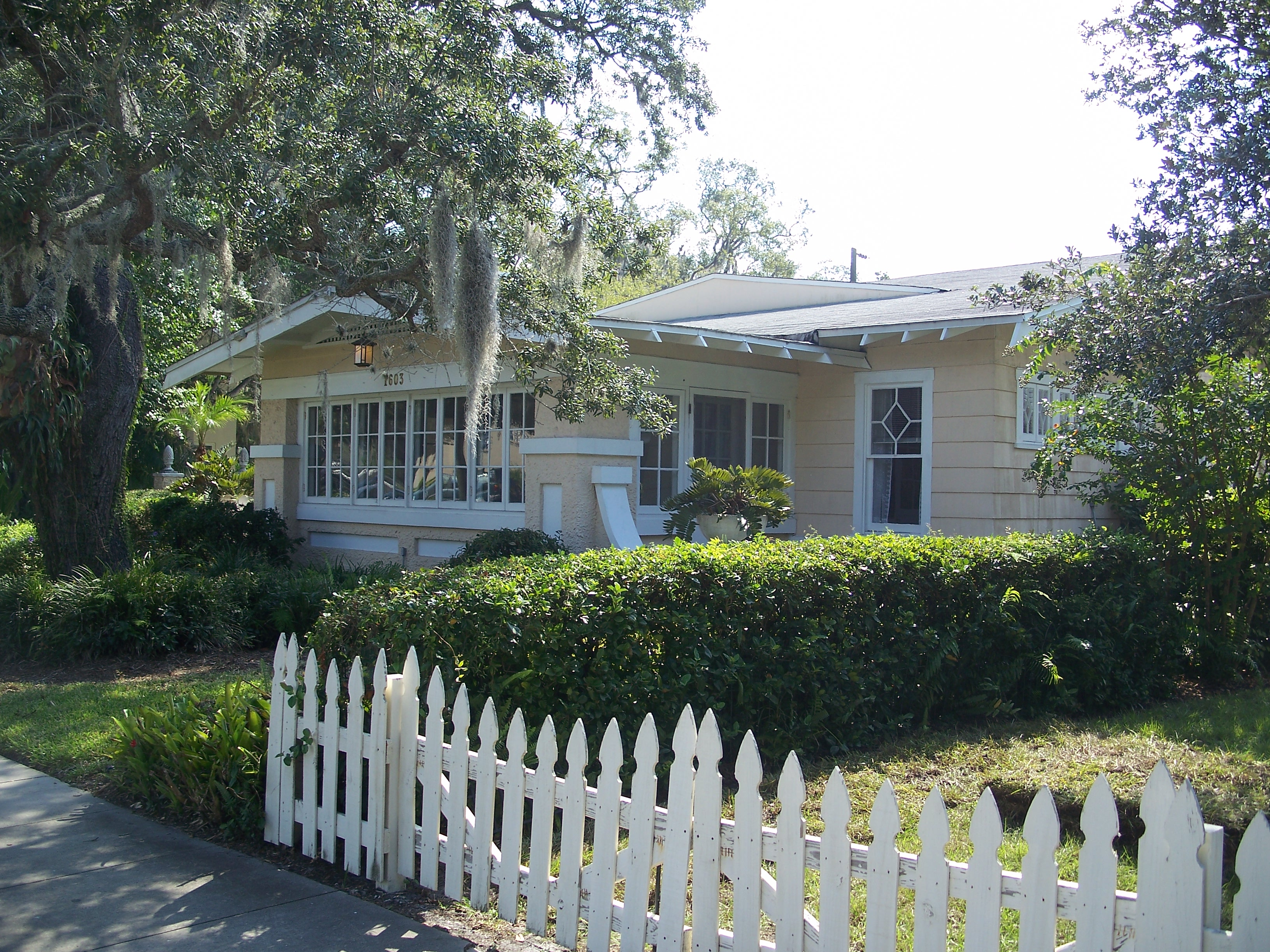 Bradenton, Florida: Richardson House